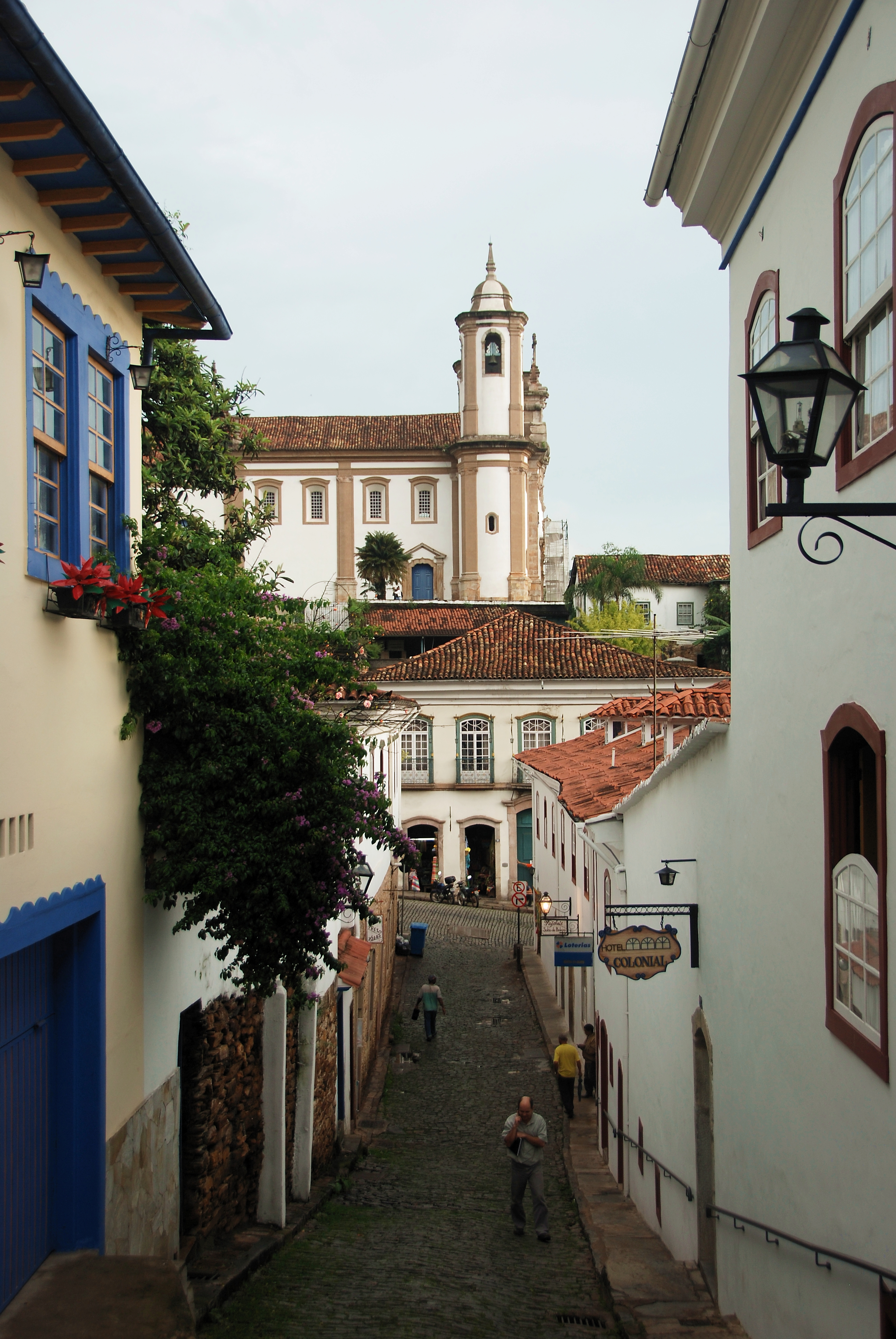 Alley in Ouro Preto, Brazil, with the church of Nossa Senhora do Carmo